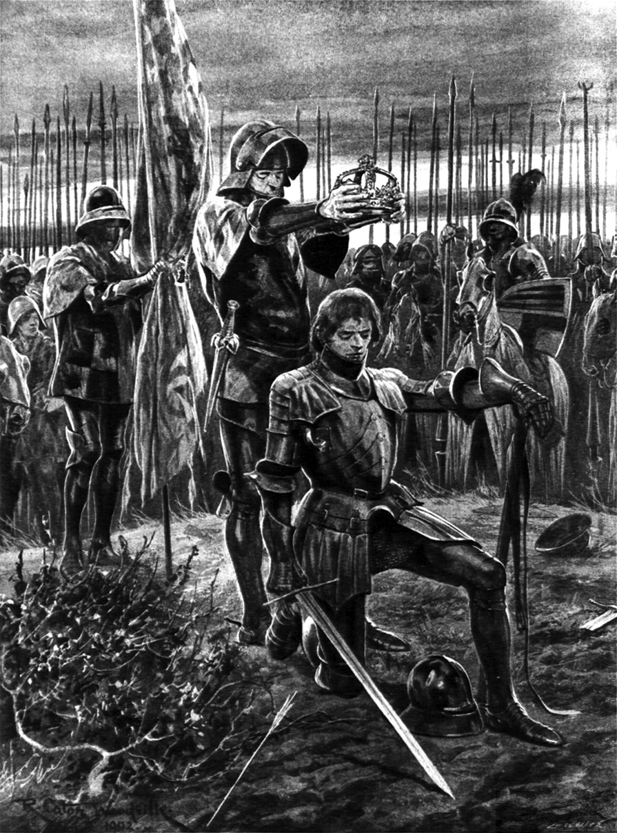 Just after winning the Battle of Bosworth Field, Henry VII is crowned atop Crown Hill, Stoke Golding, Leicestershire, United Kingdom.